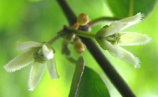 A flower of a vine named Metastelma schlechtendalii.